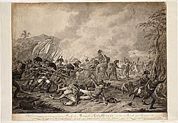 An illustration depicting the capture of general Johann Hermann von Fersen during the Battle of Bergen (1799)